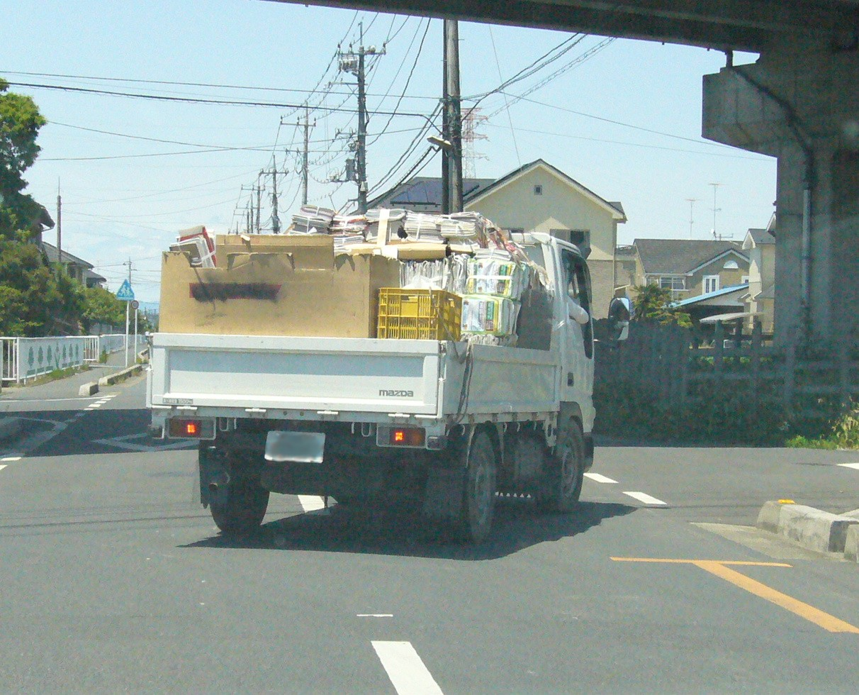 collector-of-scrap-items,japan